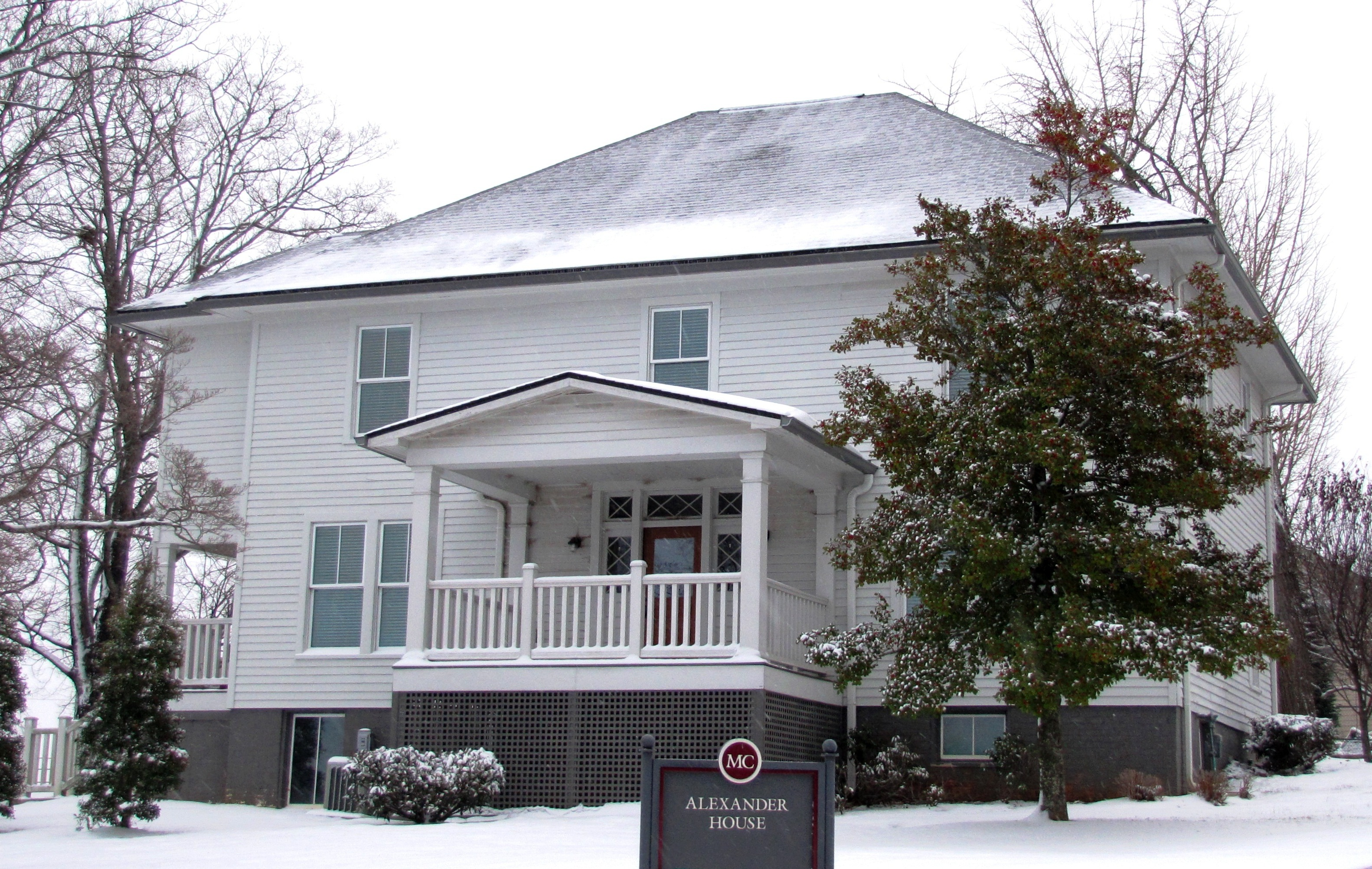 The John Alexander House at Maryville College in Maryville, Tennessee, USA. Built in 1906, this house is now listed on the National Register of Historic Places.